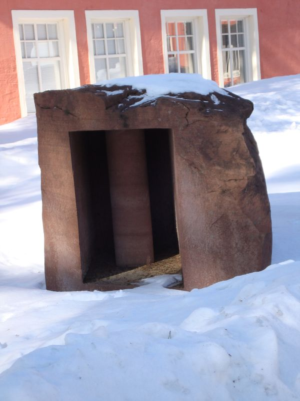 Umeå sculpture park/Sweden with Pillar of Light (1991) by Anish Kapoor#